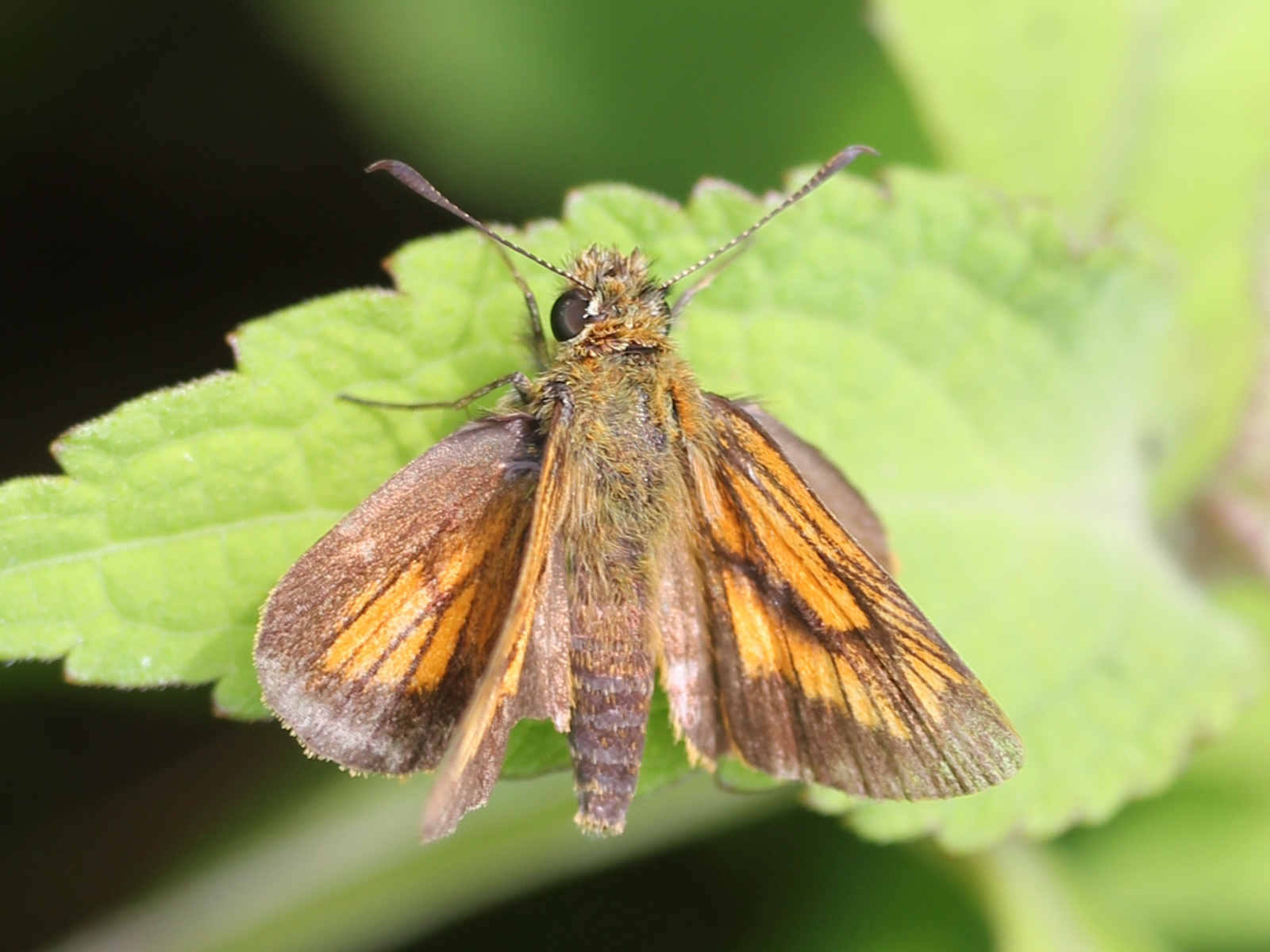 Ochlodes ochraceus, male, in Mount Ibuki, Ibigawa, Gifu prefecture, Japan.